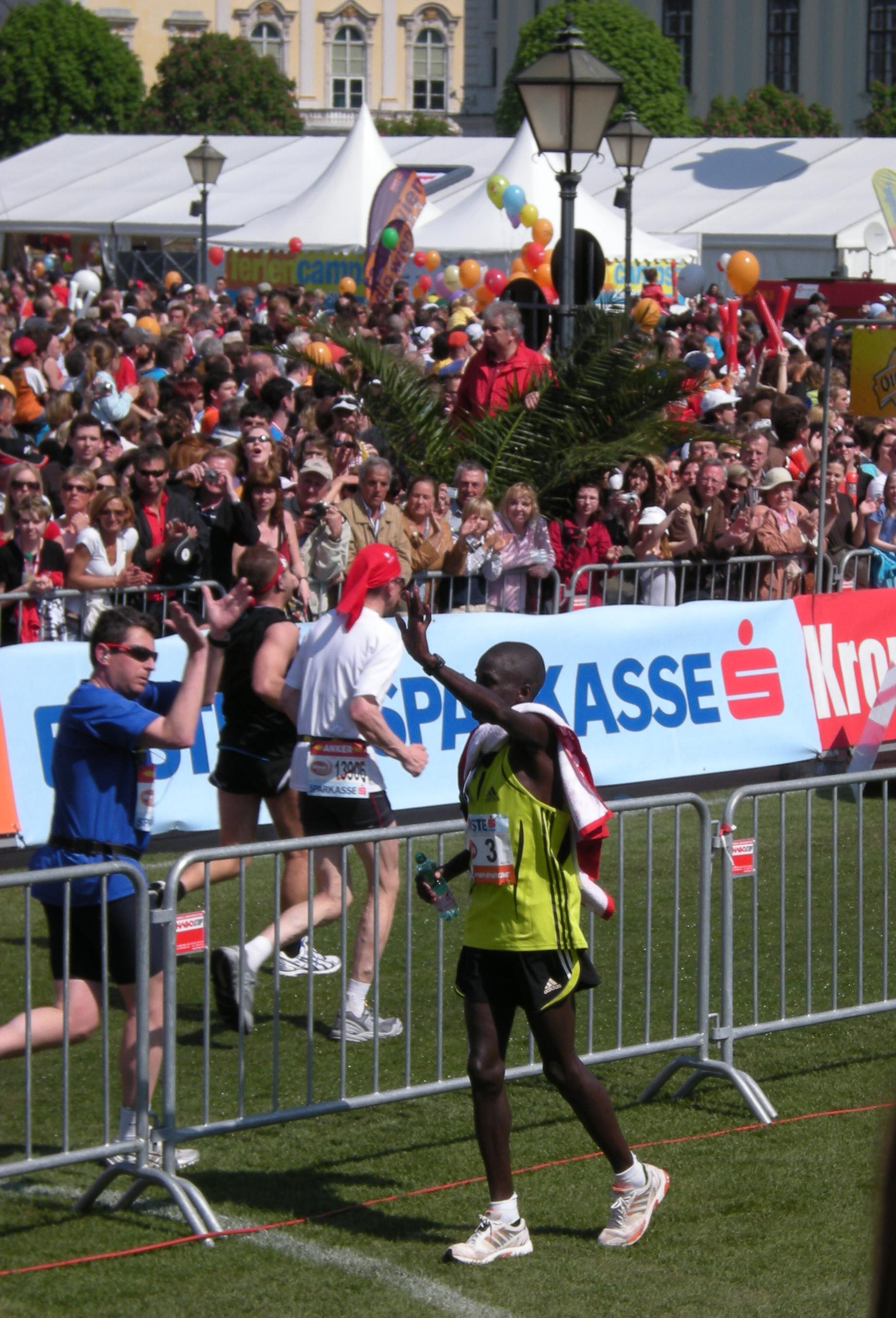 Vienna City Marathon 2008 Note: My camera's time setting was about 1h4min late to local time.